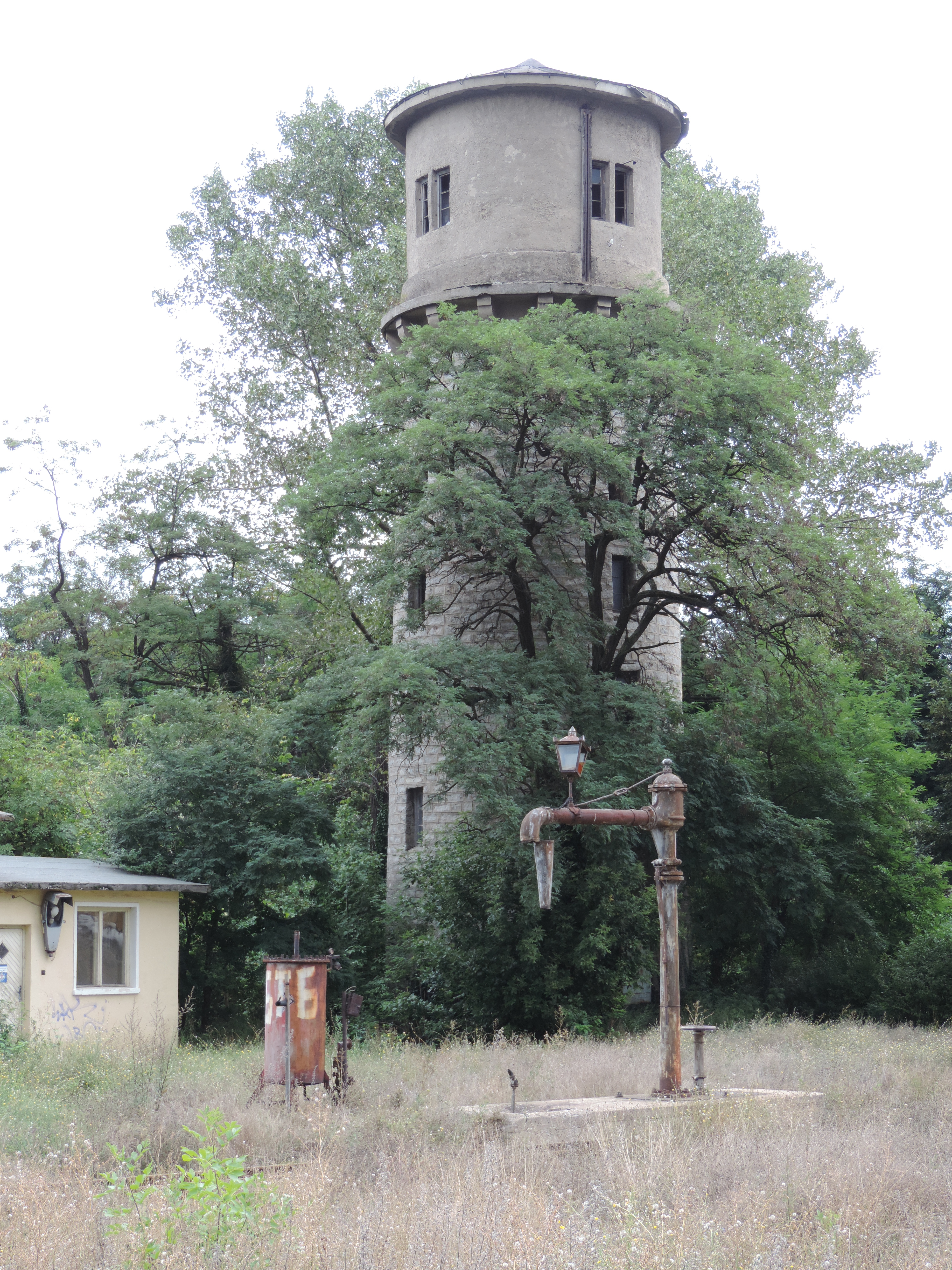 Bansko railway station, Bulgaria